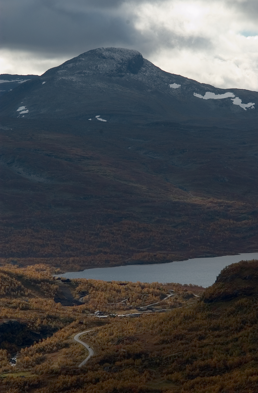 Suletinden. View towards west. Otrøvatnet lake in the foreground.